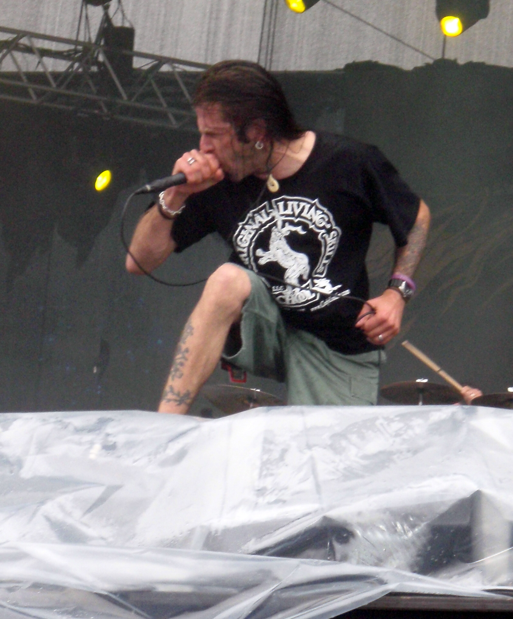 Randy Blythe from Lamb of God performing at Sonisphere Festival in Kirjurinluoto, Pori, Finland.